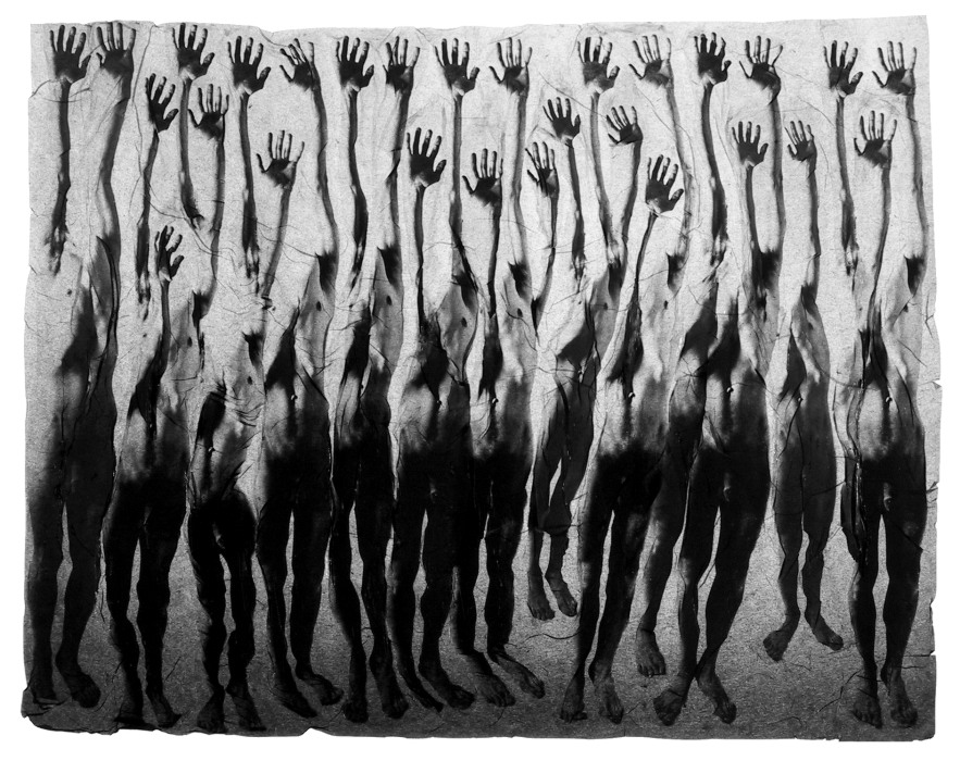 Photograph from Michal Macků